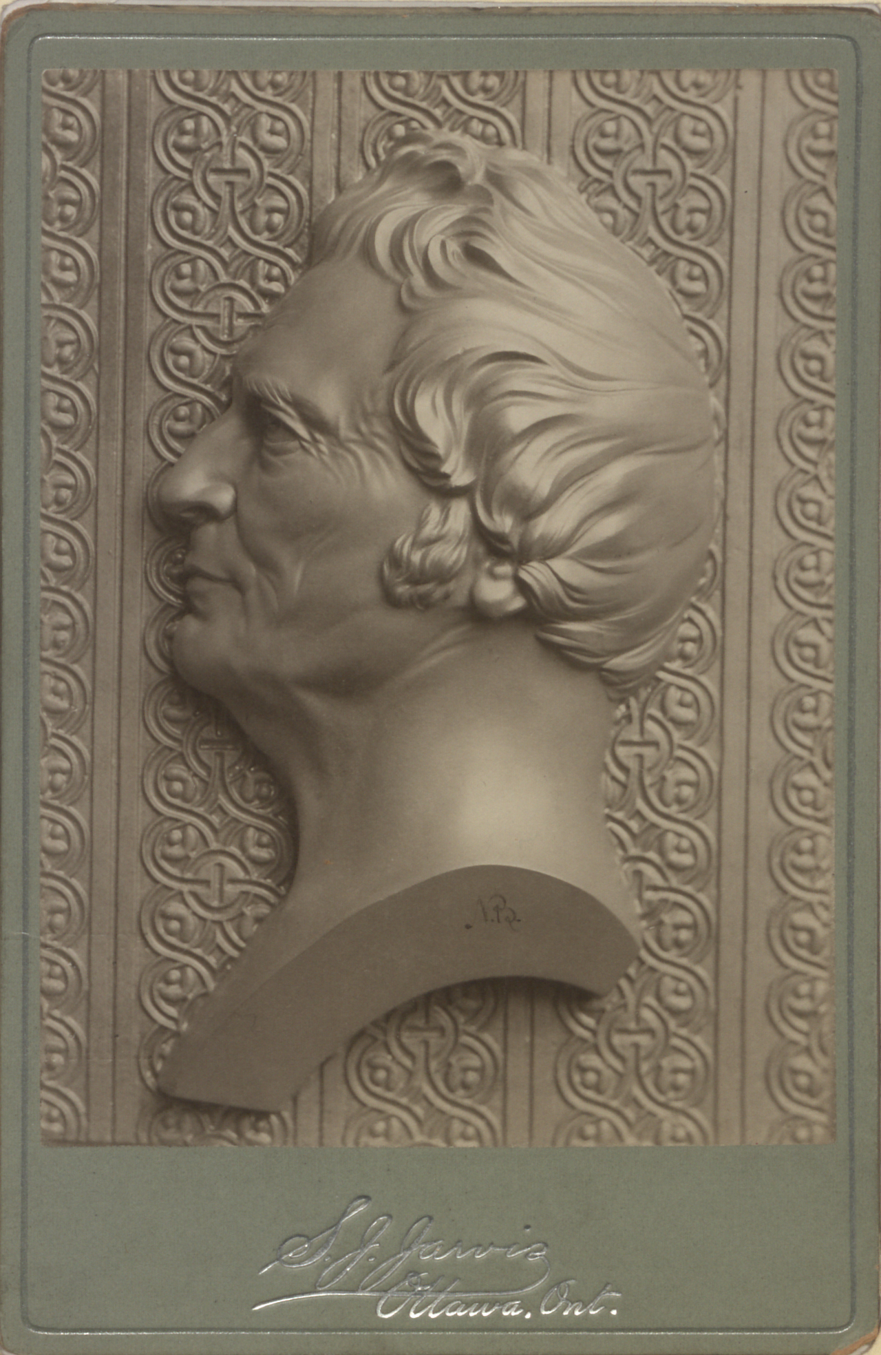 Sculpture by Napoléon Bourassa representing Louis-Joseph Papineau